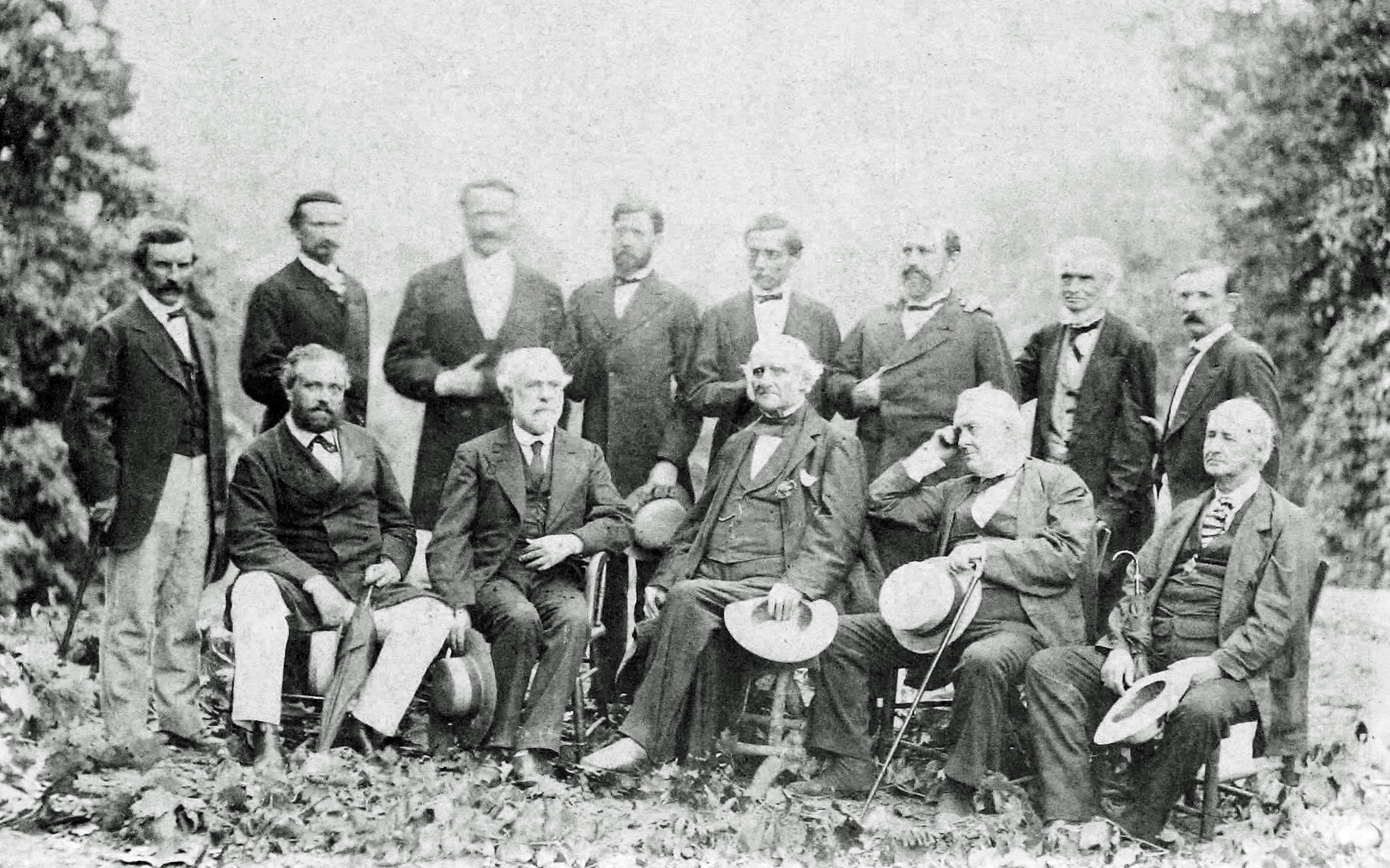 General Lee and his Confederate officers in their first meeting since Appomattox, taken at White Sulphur Springs, West Virginia, in August 1869, where they met to discuss "the orphaned children of the Lost Cause". This is the only from life photograph of Lee with his Generals in existence, during the war or after. Left to right standing: General James Conner, General Martin Witherspoon Gary, General John B. Magruder, General Robert D. Lilley, General P. G. T. Beauregard, General Alexander Lawton, General Henry A. Wise, General Joseph Lancaster Brent Left to right seated: Blacque Bey (Turkish Minister to the United States), General Robert E. Lee, Philanthropist George Peabody, Philanthropist William Wilson Corcoran, James Lyons (Virginia) This is a retouched picture, which means that it has been digitally altered from its original version. Modifications: lightly restored and cropped. Modifications made by Adam Cuerden. The original can be found here